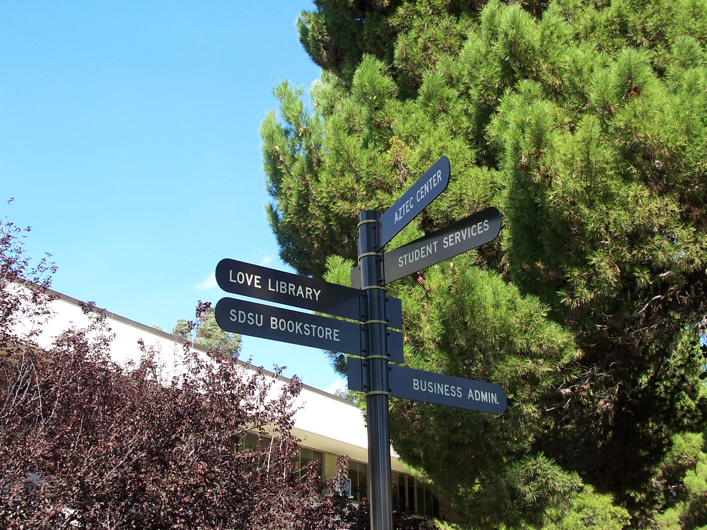 One of several directional signs at San Diego State University.